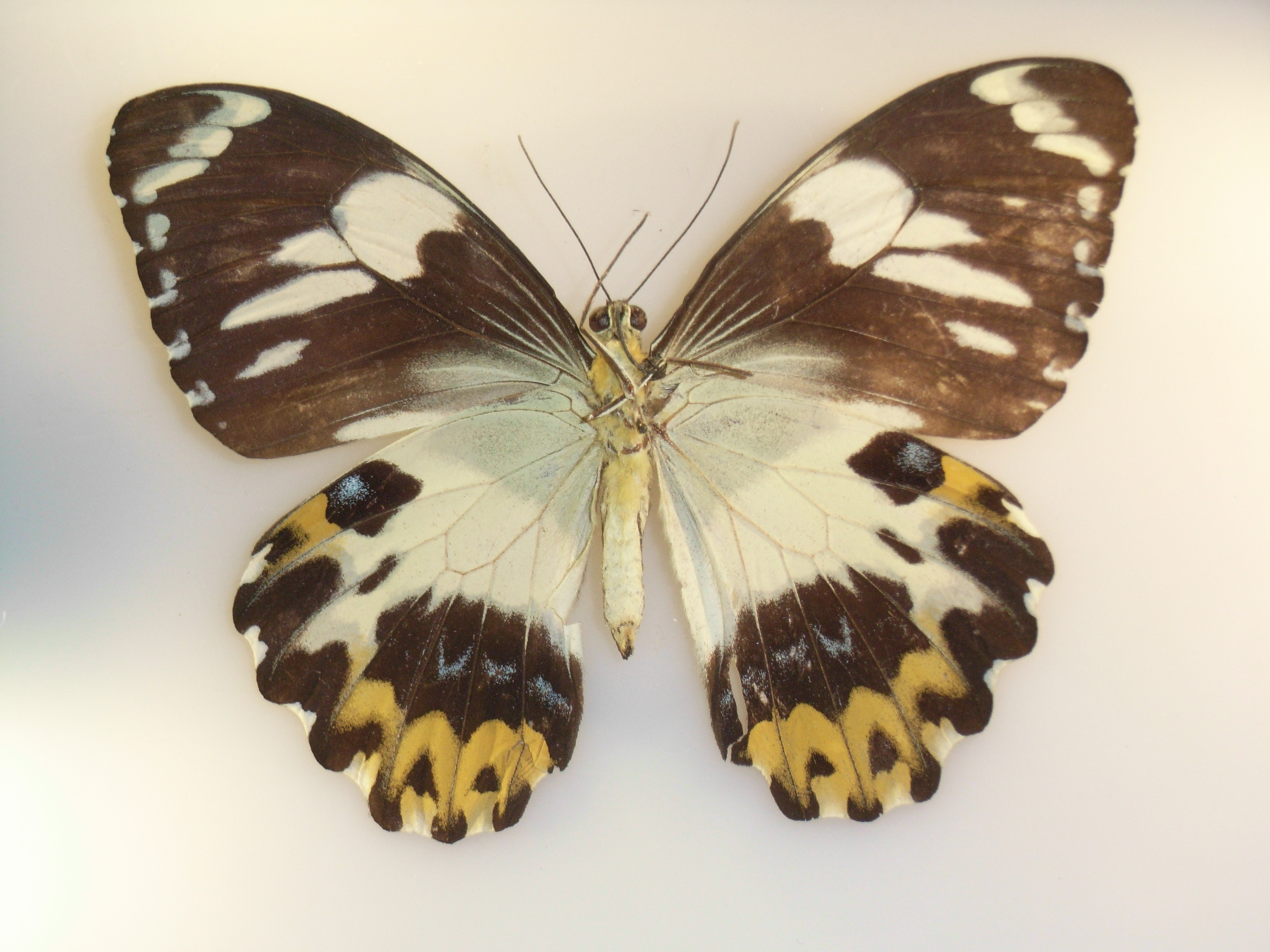 Papilio euchenor sudestensisRothschild, 1808.Sud Est Mount Riu